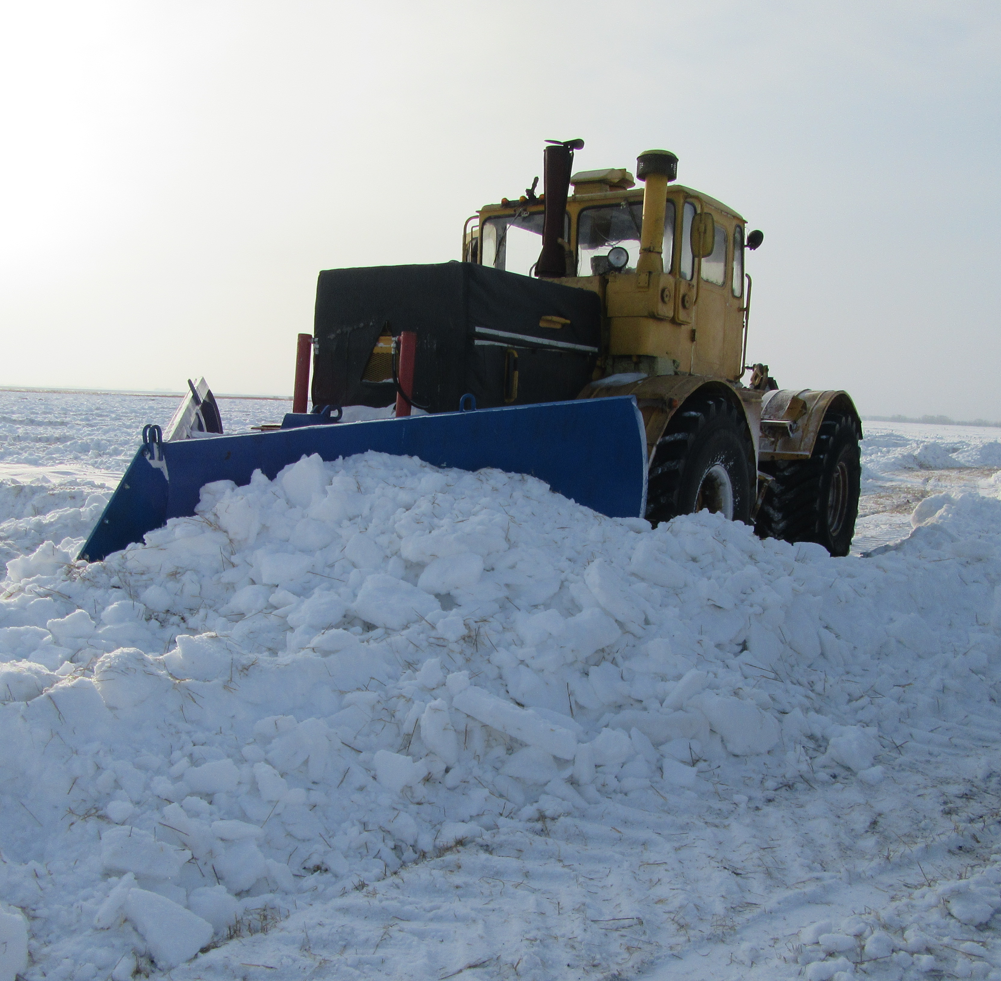 Dualblade snowplow on Kirovets K-701 tractor